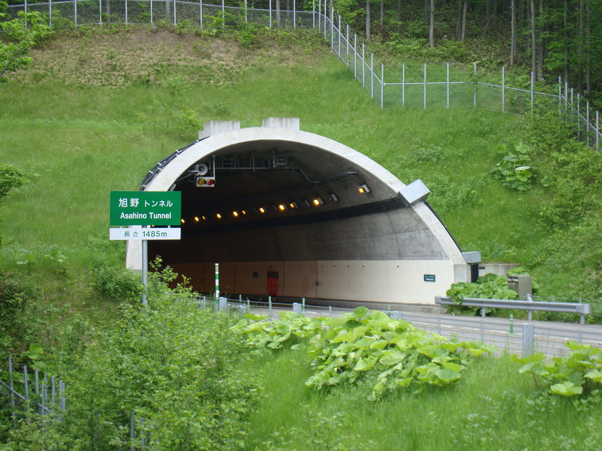 Route 333 (Japan), Asahi-tōge Expressway, Asahino tunnel.